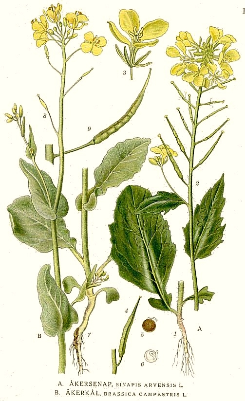 A. Sinapis arvensis L. and B. Brassica rapa subsp. oleifera (syn. Brassica campestris L., syn. Brassica rapa subsp. campestris (L.) A.R.Clapham) Original Description A. Åkersenap, Sinapis arvensis L. B. Åkerkål, Brassica campestris L.